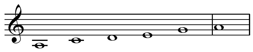 Minor pentatonic scale on A.